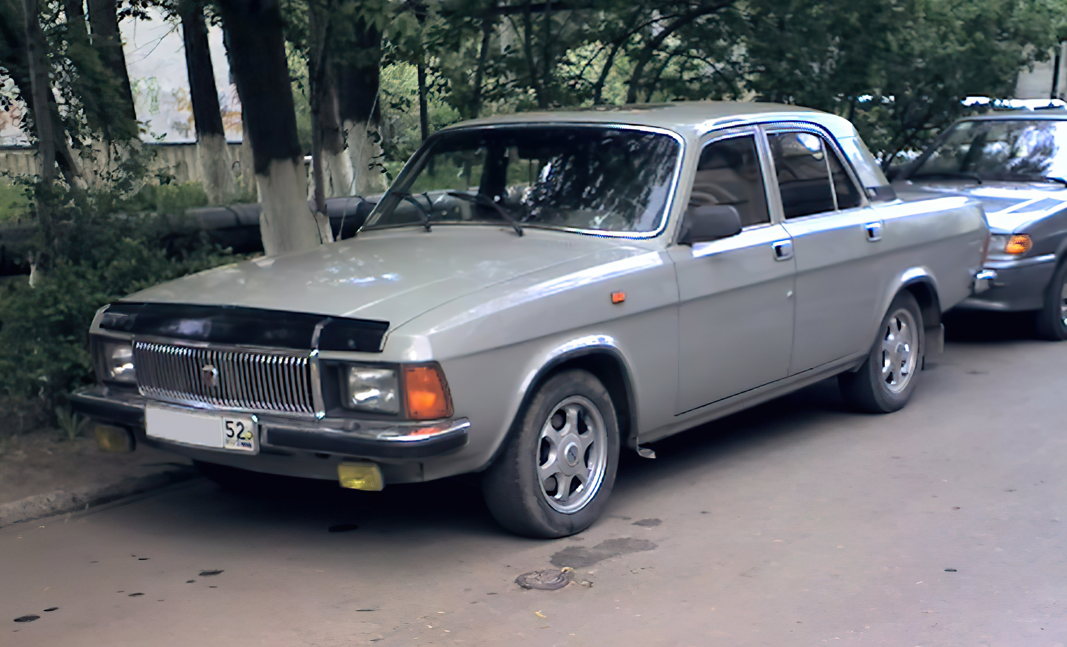 Russian mid 1990's GAZ-3102 photographed in Nizhny Novgorod.